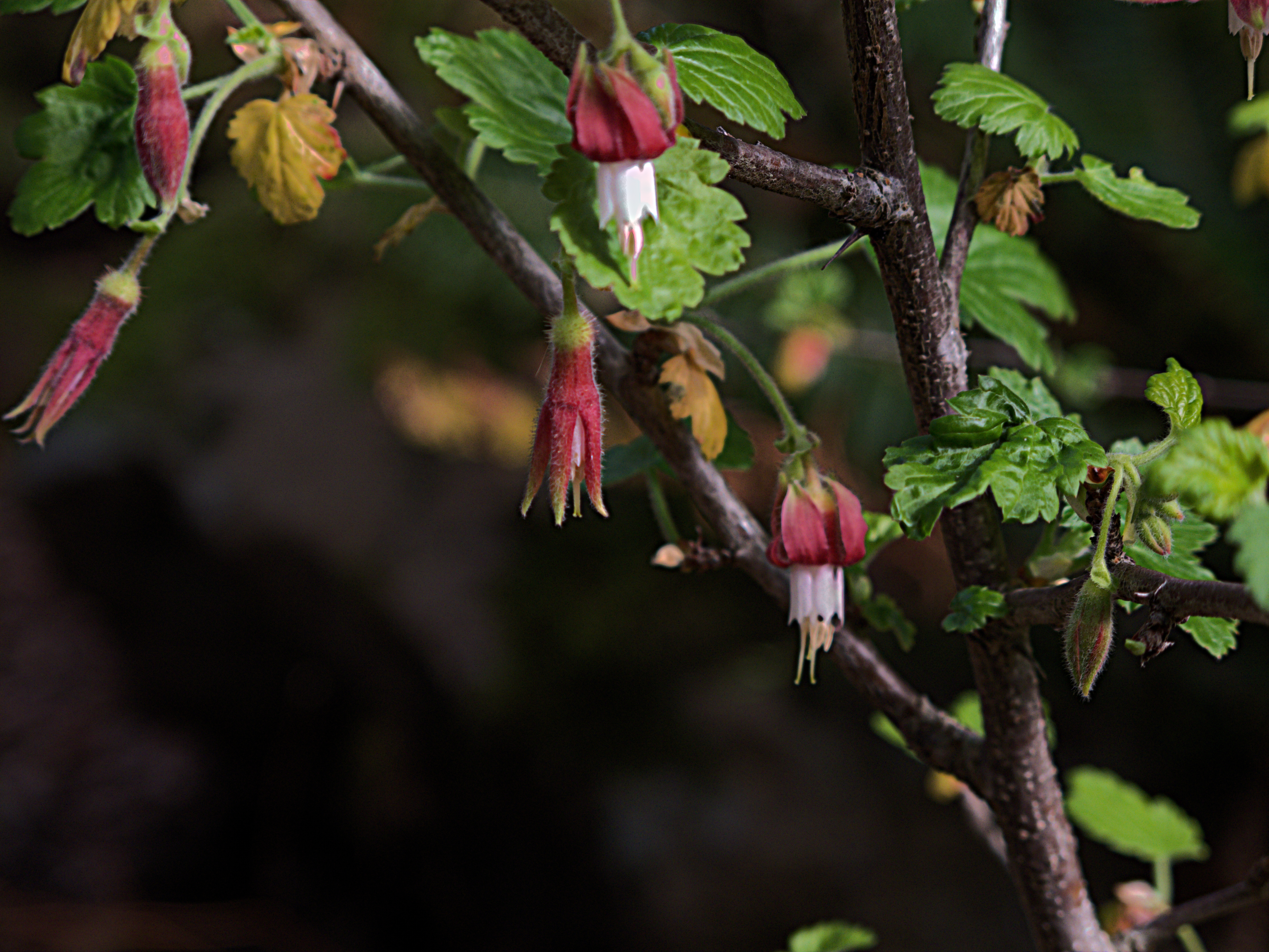 Ribes thacherianum—Santa Cruz Island gooseberry. Included in the CNPS Inventory of Rare and Endangered Plants on list 1B.2 (rare, threatened, or endangered in CA and elsewhere). Endemic to Santa Cruz Island only. The story goes that students of the Thacher School of Ojai, CA. brought this species to the attention of Willis Jepson, who named it in the school's honor. Photographed at Regional Parks Botanic Garden located in Tilden Regional Park near Berkeley, CA.